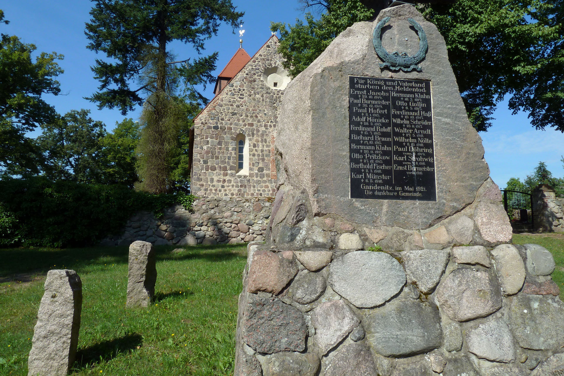 War memorial Gandenitz, 1921